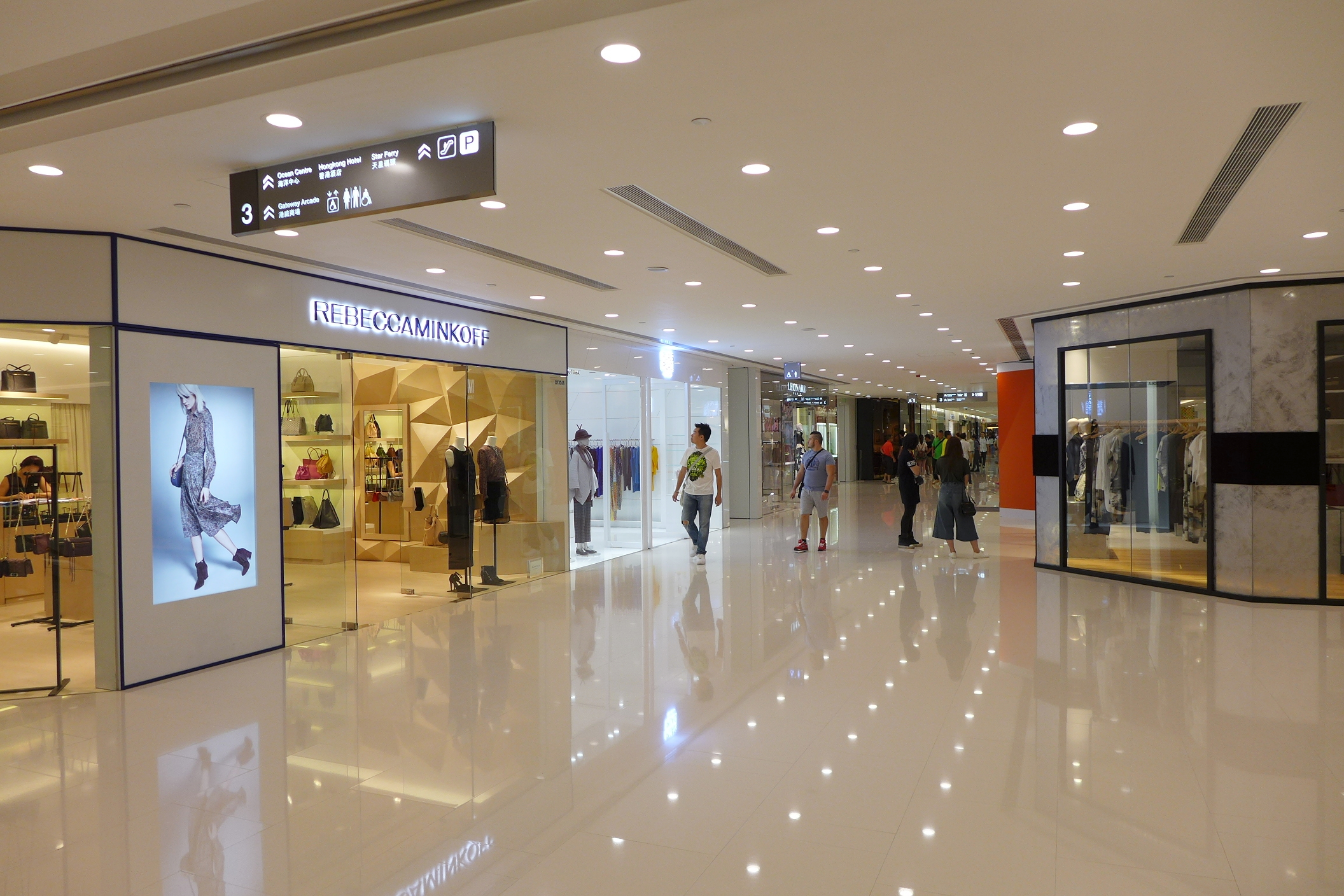 Ocean Terminal Level 3 after renovation